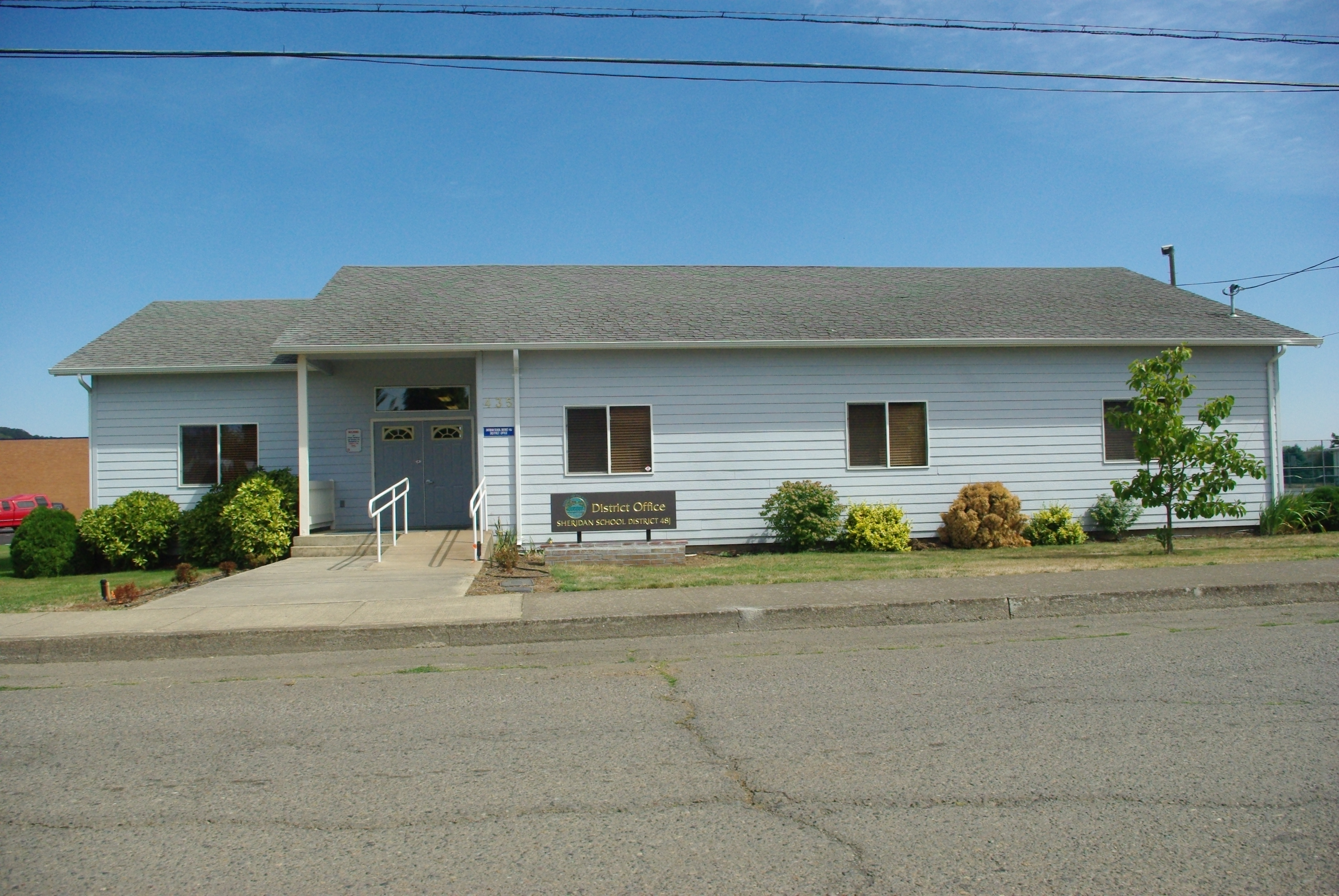 Opportunity House school in Sheridan, Oregon, USA.